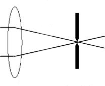 The Setup uf a Pinhole.